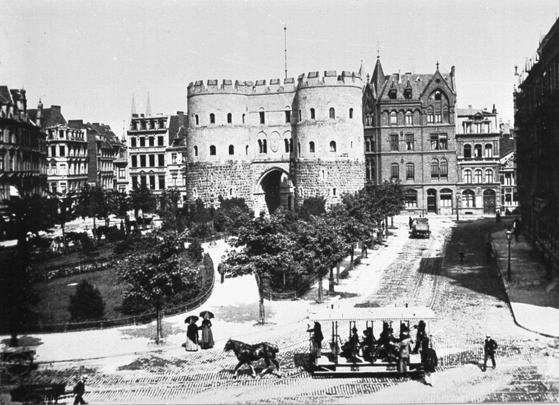 Rudolfplatz - Hahnentor, Pferdebahn (um 1890)